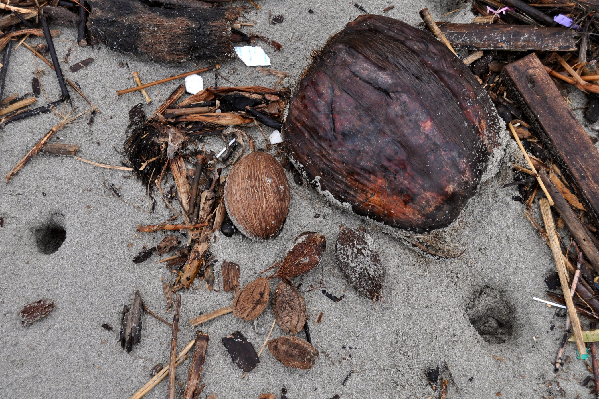 Some water borne fruits, transported and stranded by sea waves at Panjang Beach, Bengkulu City, Sumatra, Indonesia. The biggest one is coconut fruit; second one at center is Cerbera fruit; and other smaller ones are Terminalia catappa fruits (center-below). The holes at left and below-right side is made by Ocypode crab.